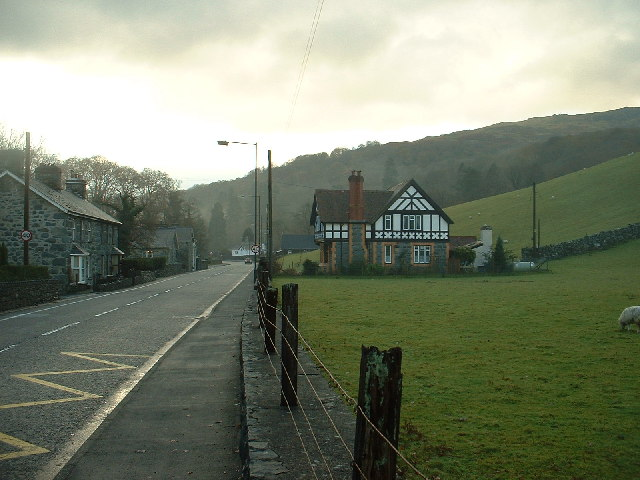 Ganllwyd Village.